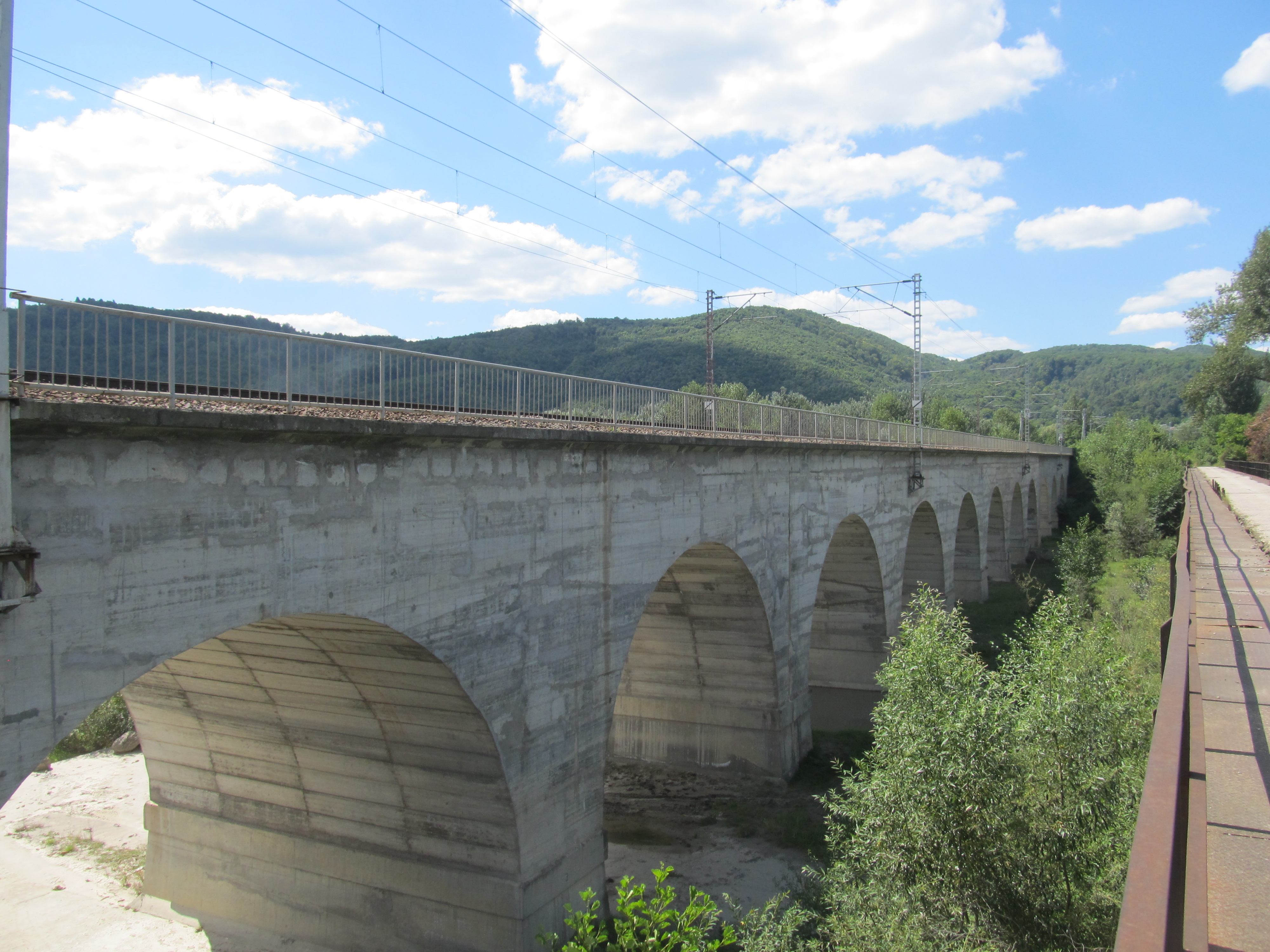 Railway bridge at km 89+140 on the CFR main line 300, near the village of Bobolia in Prahova County, Romania. The bridge crosses over the Prahova River.